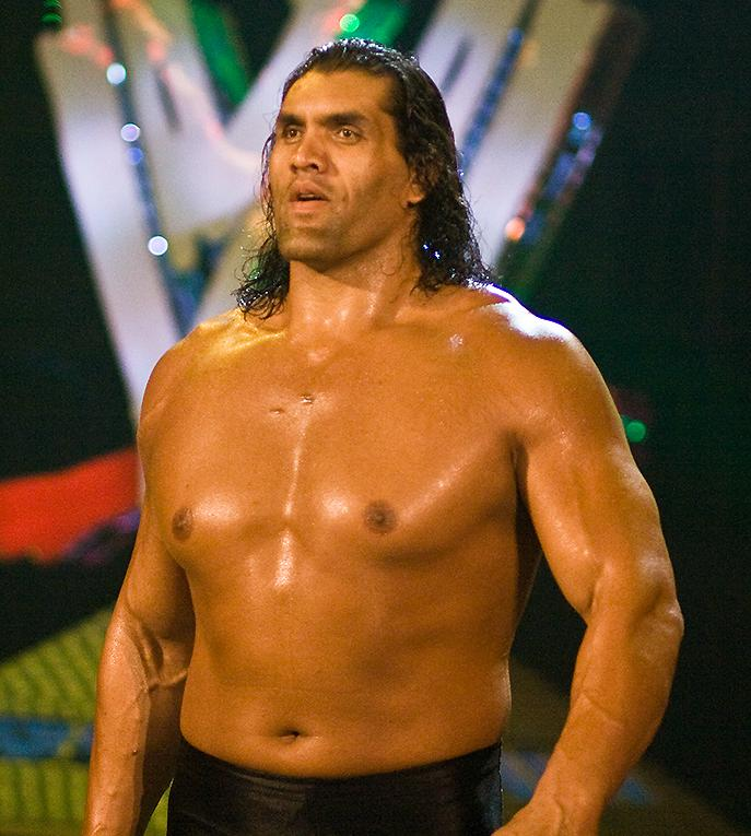 The Great Khali WWE Monday Night Raw 800th Tampa